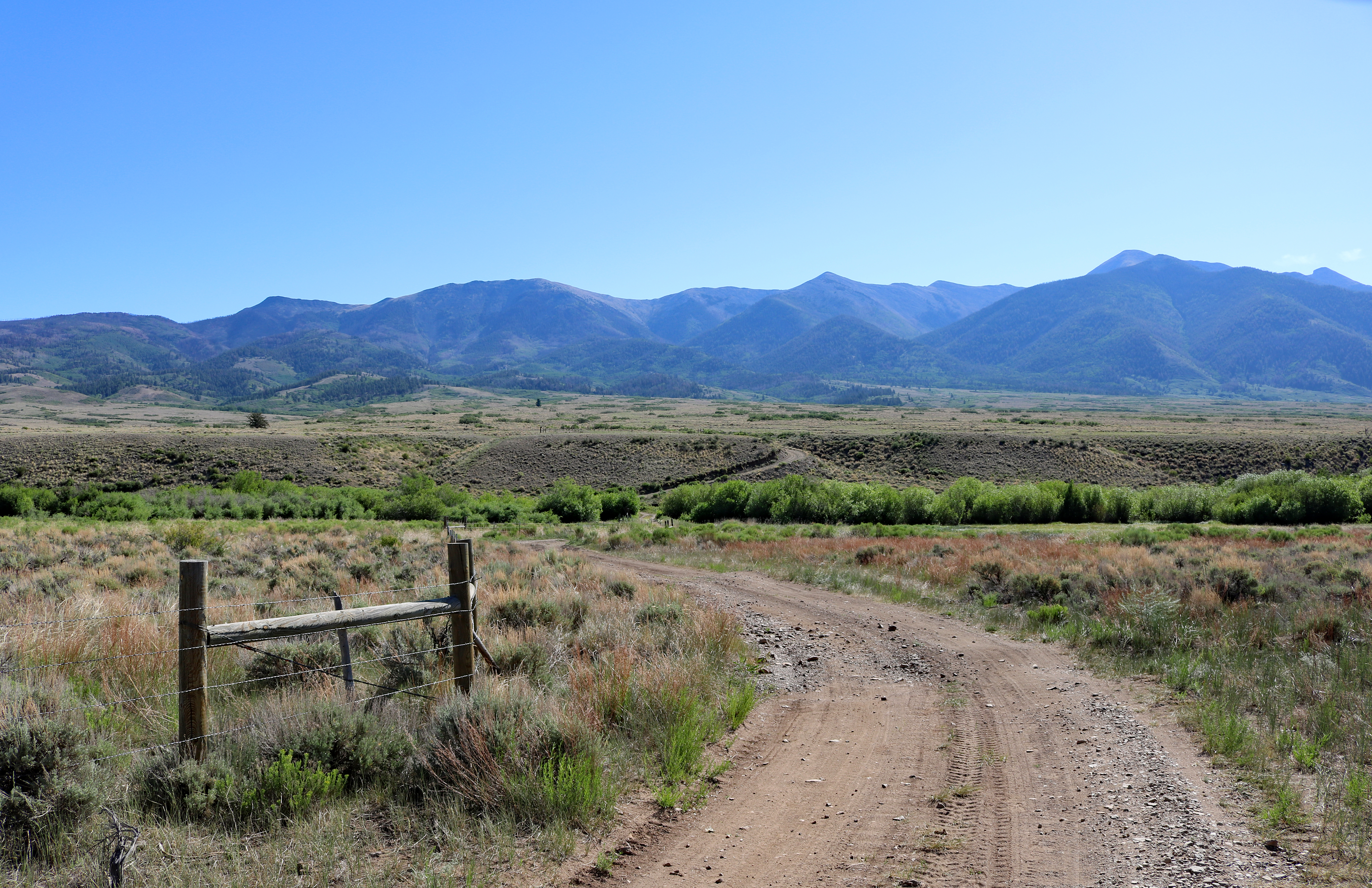 A view of the San Luis Creek watershed in the northern San Luis Valley in Saguache County, Colorado at Alder, Colorado. The creek, choked by heavy vegetation, flows from left to right in the picture where the green trees are. The mountains in the background are the Sangre de Cristo Mountains.